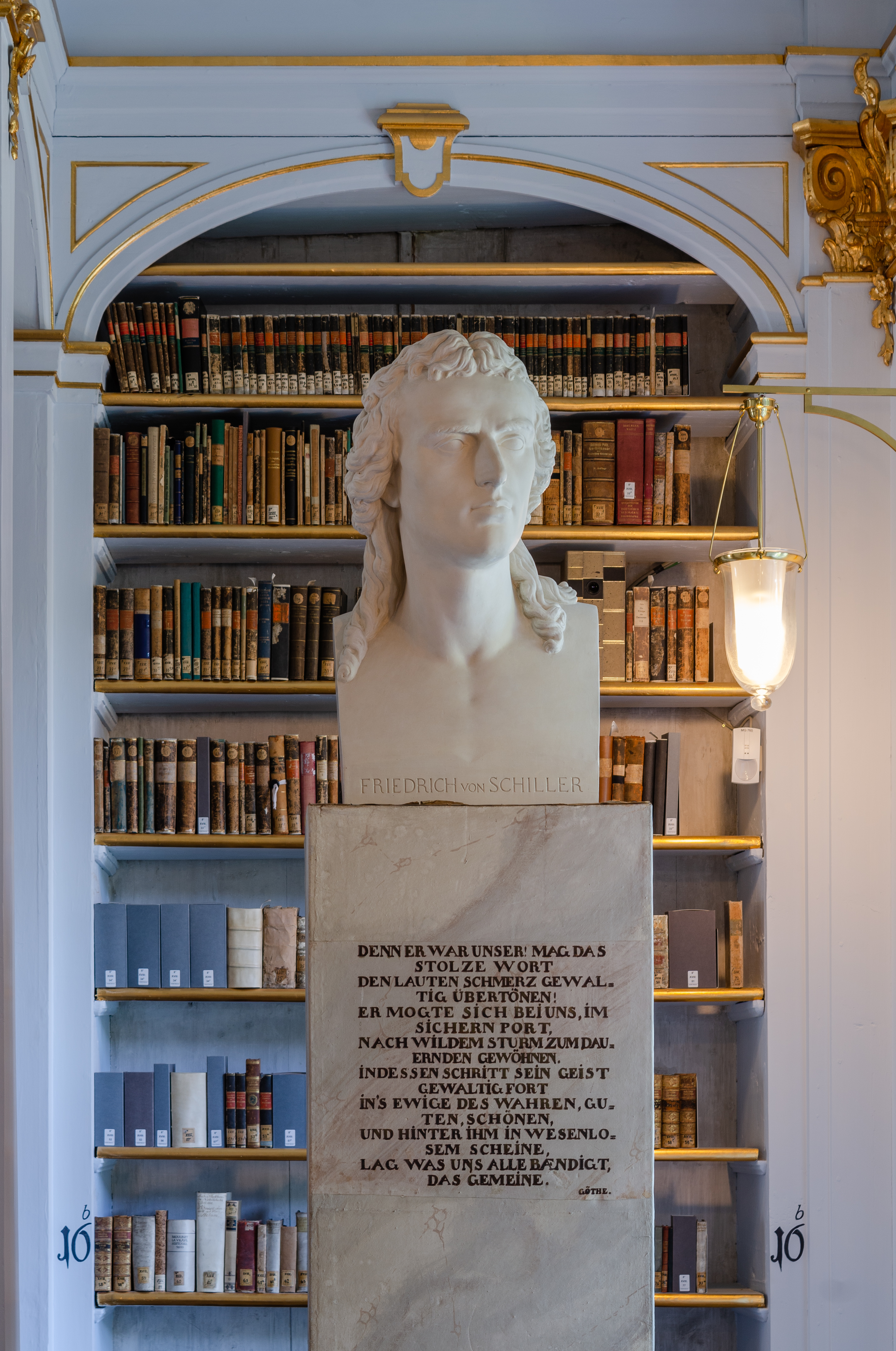 Weimar (Thuringia, Germany) – Duchess Anna Amalia Library – main building in the Green Palace – Rococo hall – left side aisle – bust of Friedrich Schiller (by Johann Heinrich von Dannecker in 1805-1810)